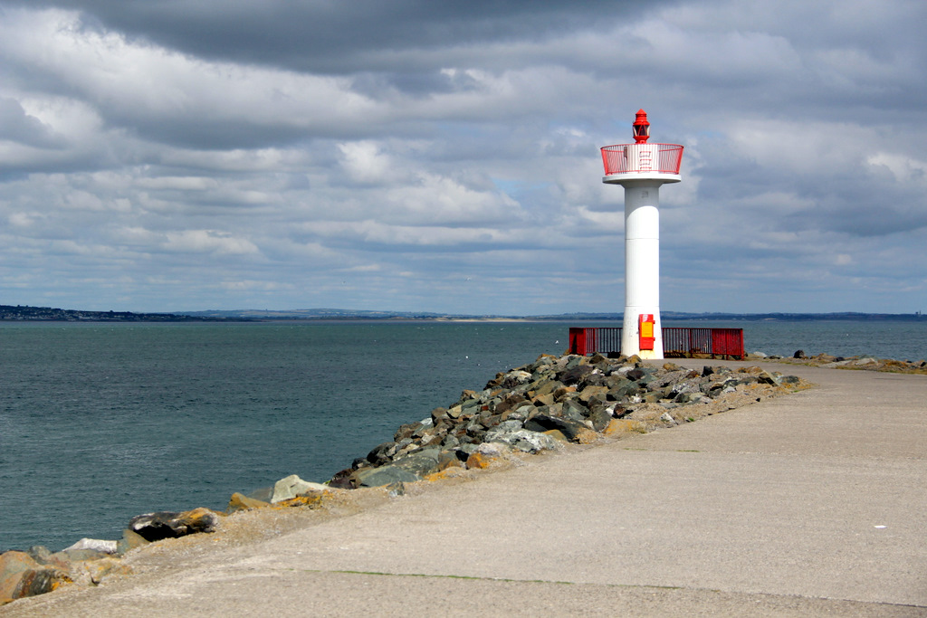 Navigation Light, Howth Harbour, Ireland